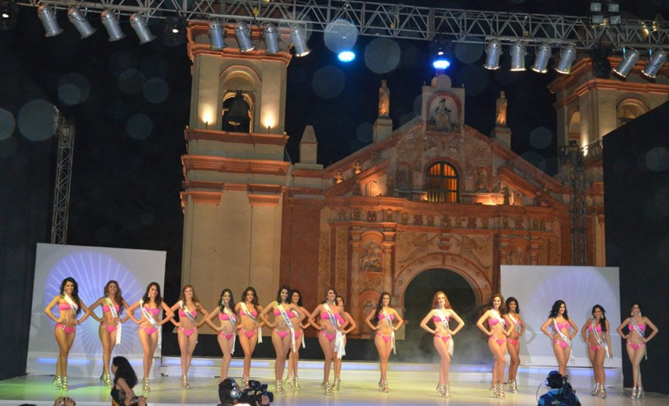 Miss Internacional Peru En Huaman